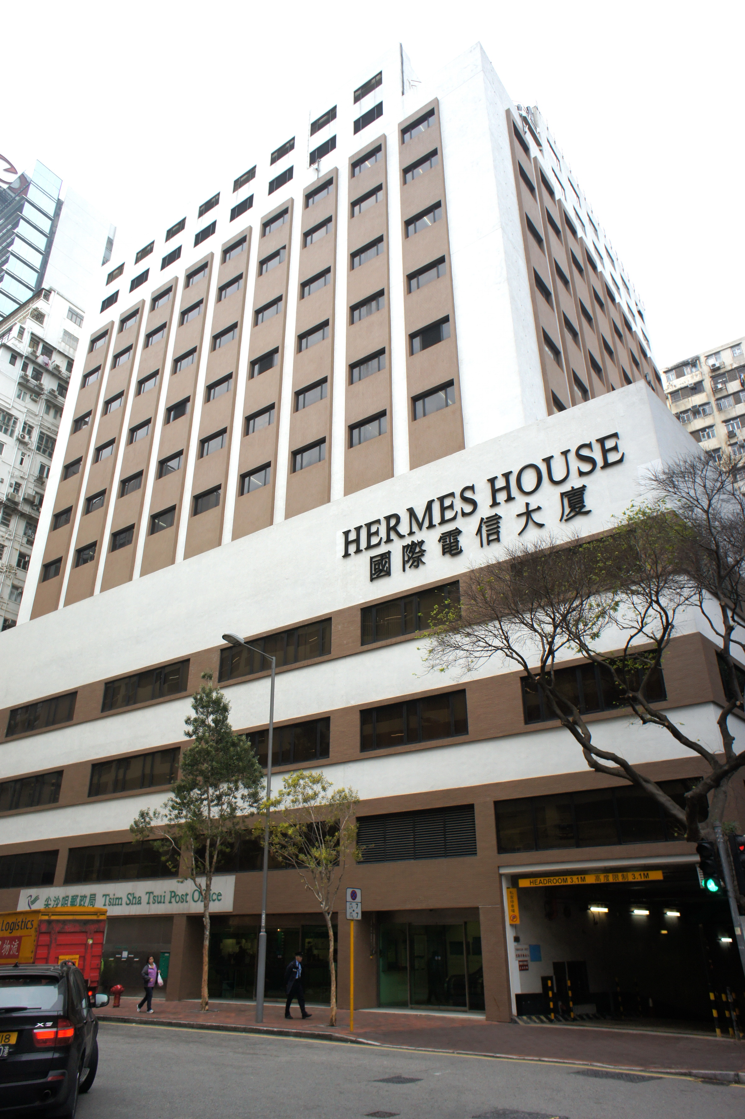 Hongkong Post, Tsim Sha Tsui post office. Address: Hermes House, 10 Middle Road, Tsim Sha Tsui, Kowloon, Hong Kong.